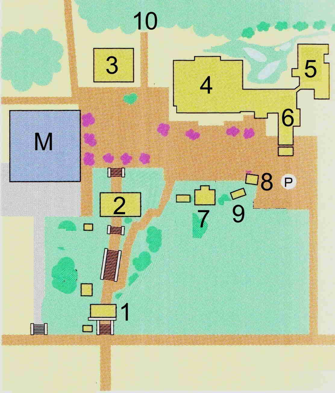 Outline of Kozanji at Chofu (Shimonoseki)